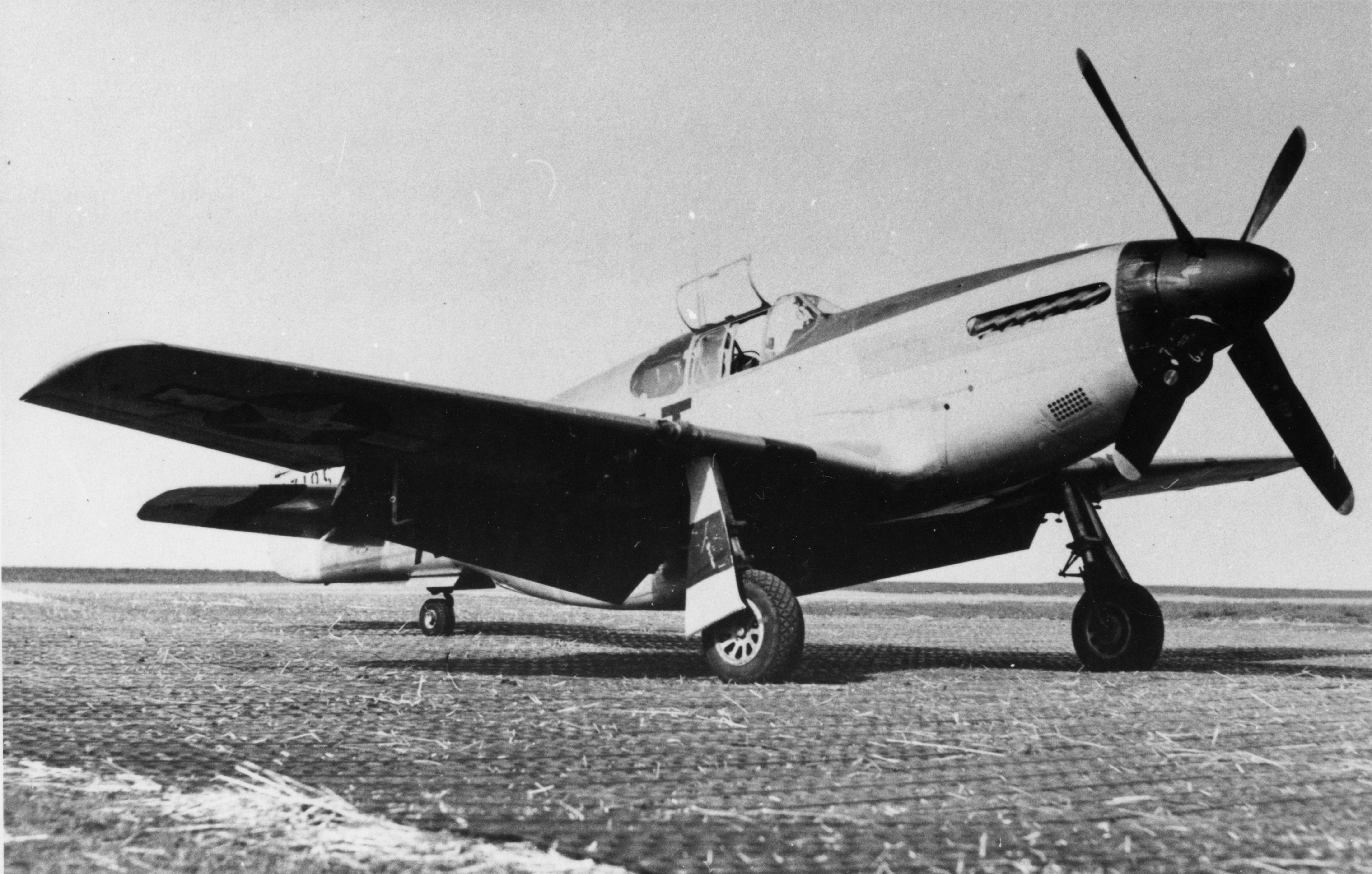 A P-51B Mustang of the 354th Fighter Group at Goxhill, 1944. Handwritten on reverse: 'Foxhill - '44 - P-51B.' On reverse: P.H.T. Green [Stamp].